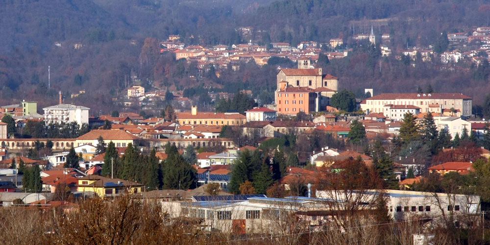 Panorama of Gozzano, Novara, Italy